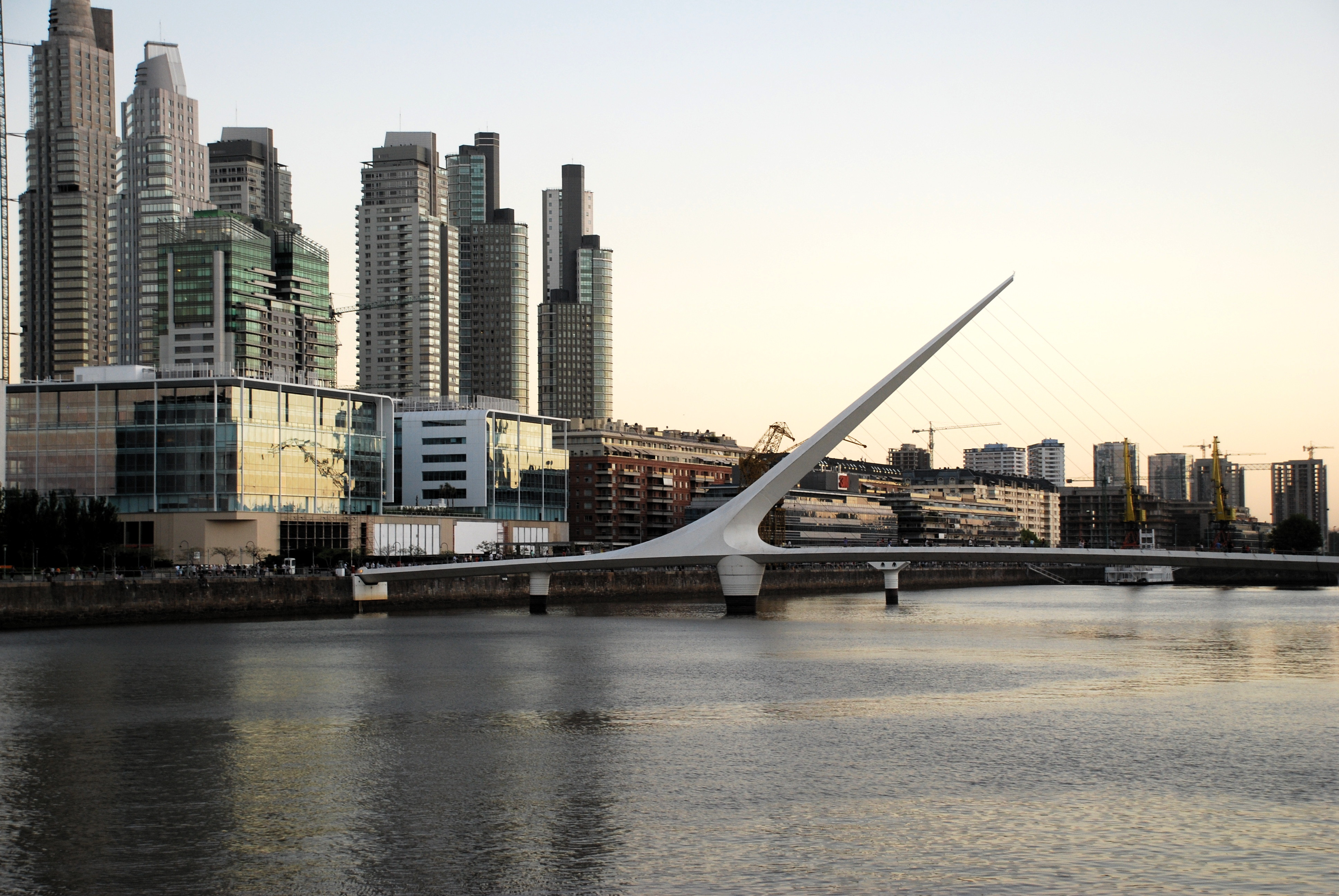 Puerto Madero, Buenos Aires, Argentina